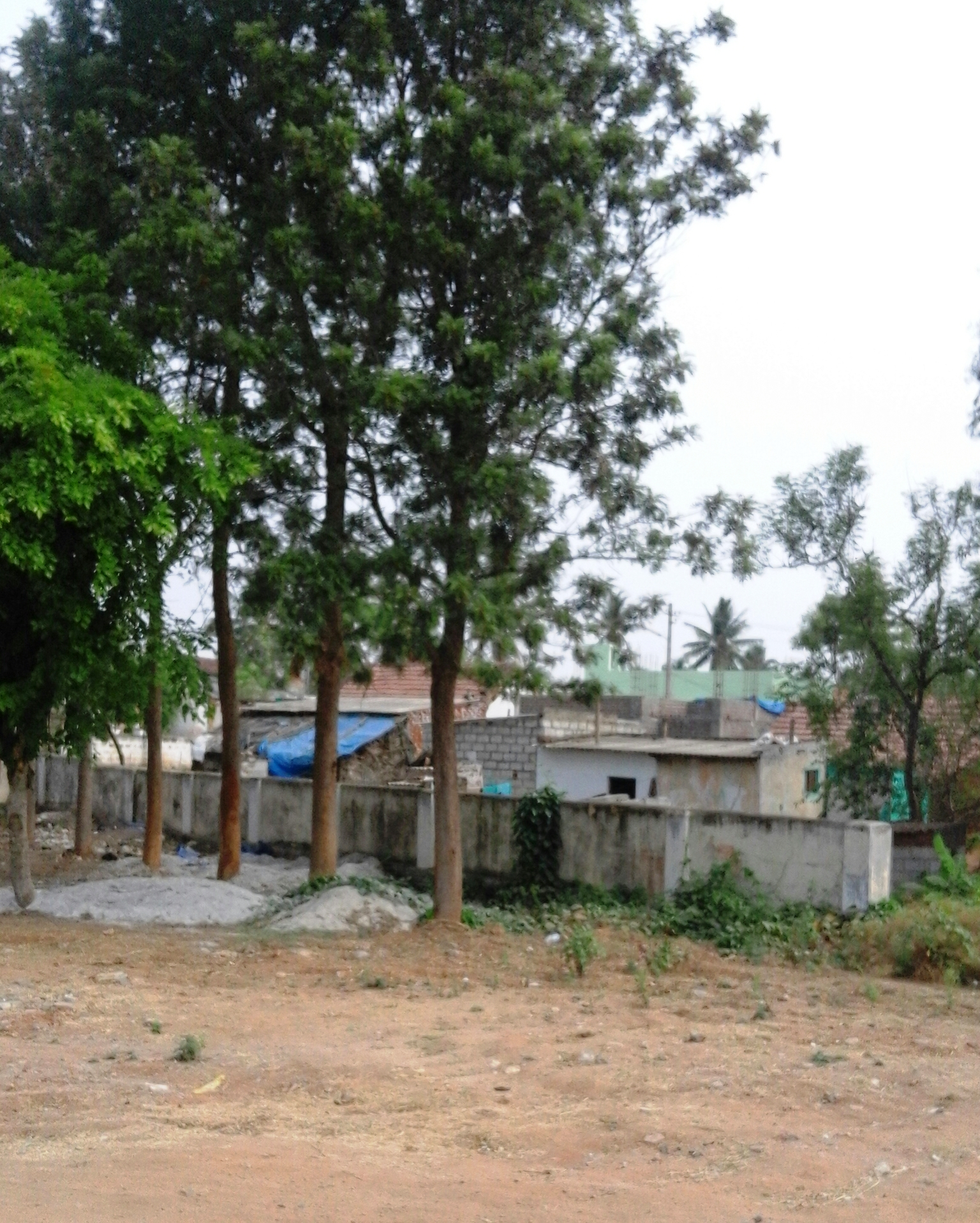 Mananthavady Road, Mysore district, Karnataka province, India.